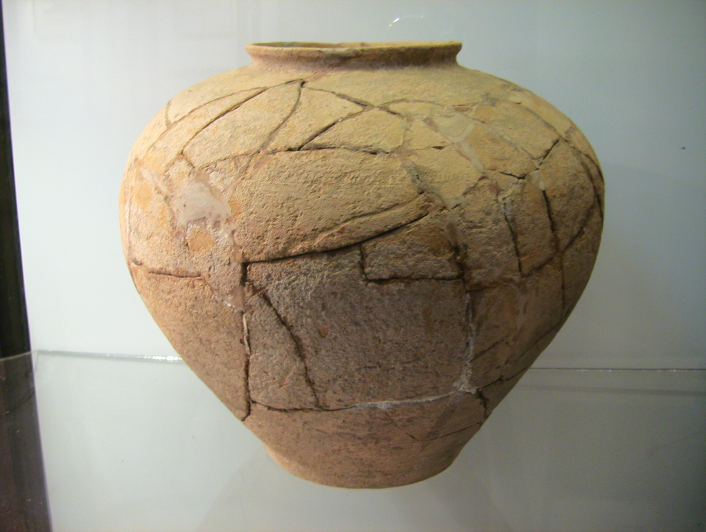 A ceramic burial jar found in Cát Tiên sanctuary.